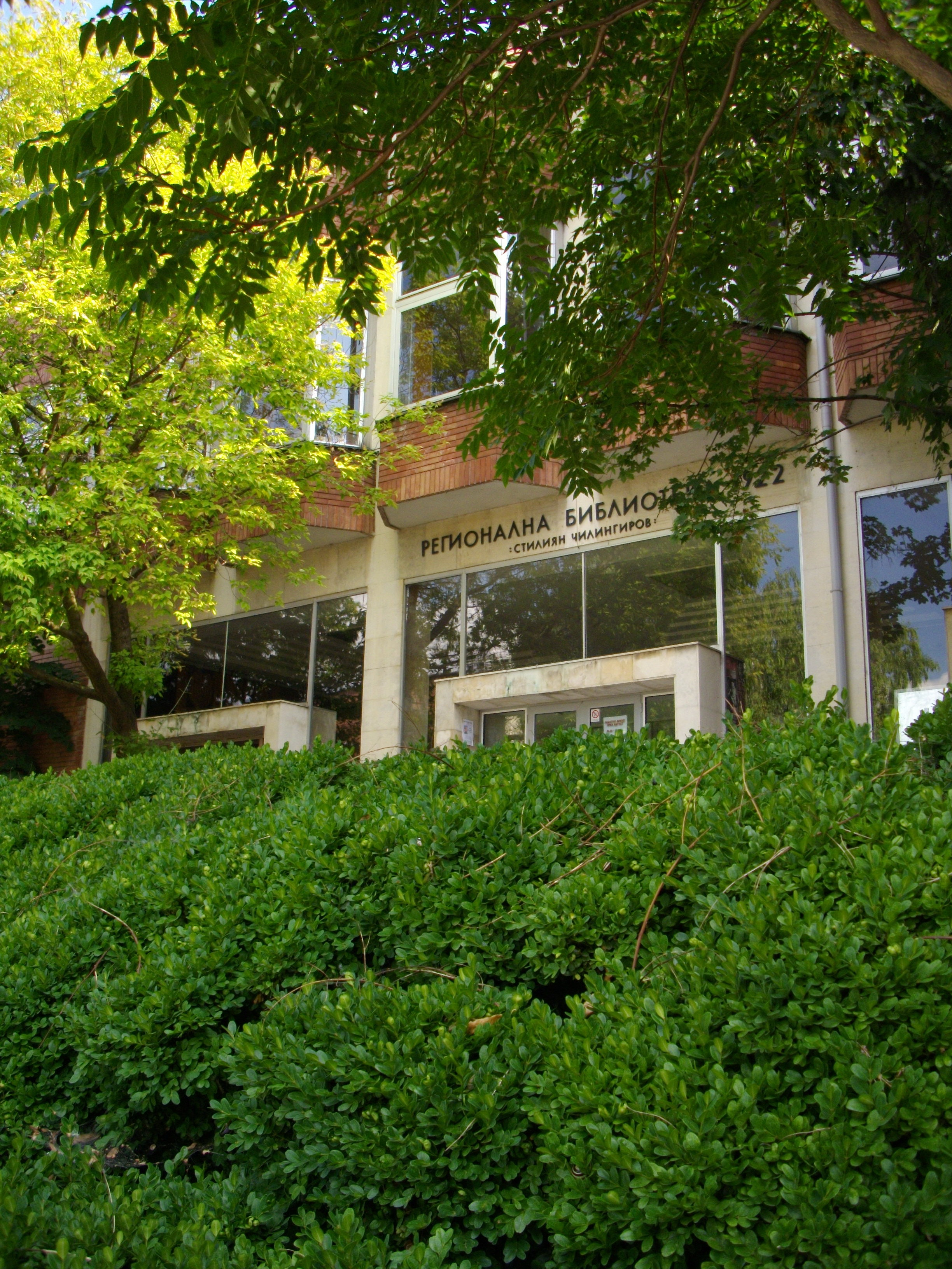 Регионална библиотека „Стилиян Чилингиров“, Шумен